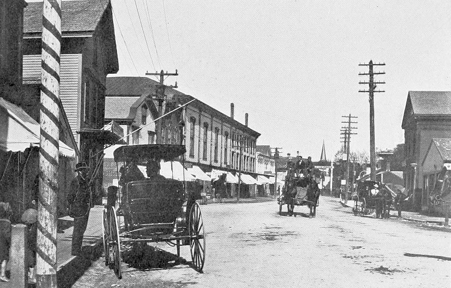 Main Street in Mystic, Connecticut. Identifier: picturesquenew00newl Title: Picturesque New London and its environs : Grofton, Mystic, Montville, Waterford, at the commencement of the twentieth century Year: 1901 (1900s) Authors: Subjects: Publisher: New London, Conn. : American book exchange Text Appearing Before Image: MYSTIC AND NOANK LIBRARY—LIBRARY STREET, MYSTIC. The Mystic and Noank Library Building was Erected in 1892. Tiie Library was Incorporated in 1893. The Con-struction of the Mystic and Noanli Library was Made Possible Through the Generosity of the Late Captain Elihu Spicer,Who Provided a Fund for that Purpose. Captain Spicer was Born in Noank. and Spent a Considerable Portion ofhis Life in Mystic. He Died in Brooklyn. N. Y., February 15th, 1893. The Library Building is Beautiful in Construc-tion and Design, and is Located in the Midst of Spacious and Charming Grounds. Text Appearing After Image: MYSTICS PRINCIPAL BUSINESS STREET—MAIN STREET, LOOKING WEST. 183 picturesque 1Rew ILondon, The Drives ix and Ahoit Mvs-Trc are lieautiful. Skirting the shores,through green tieUls, and by woodedor rocky slopes, wind the roads, af-fording land and water views of sur-prising beauty. To Stonington, Wes-terly, Wateli Hill, Norwich, NewLondon, and to Lantern Hill and theOld Road Church, are drives fraughtwith loveliness and historic interest.Around the river, from ^Mystic to OldMystic on the north, and through PequotAvenue to the John Mason Monumentare also drives of variet}^ and charm. about Mj^stic, and with its variouspoints of interest and beauty. Hisstables are well appointed in everydetail, and no item essential to thesafety, convenience, or pleasure of hispatrons is permitted by him to remainoverlooked. Telephone calls duringeither the day or night are respondedto promptly, and receive ready andcourteous attention. Carriages fromhis stable meet all trains at the ^lys-tic depot. Mr